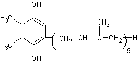 Reduced form of Plastoquinol